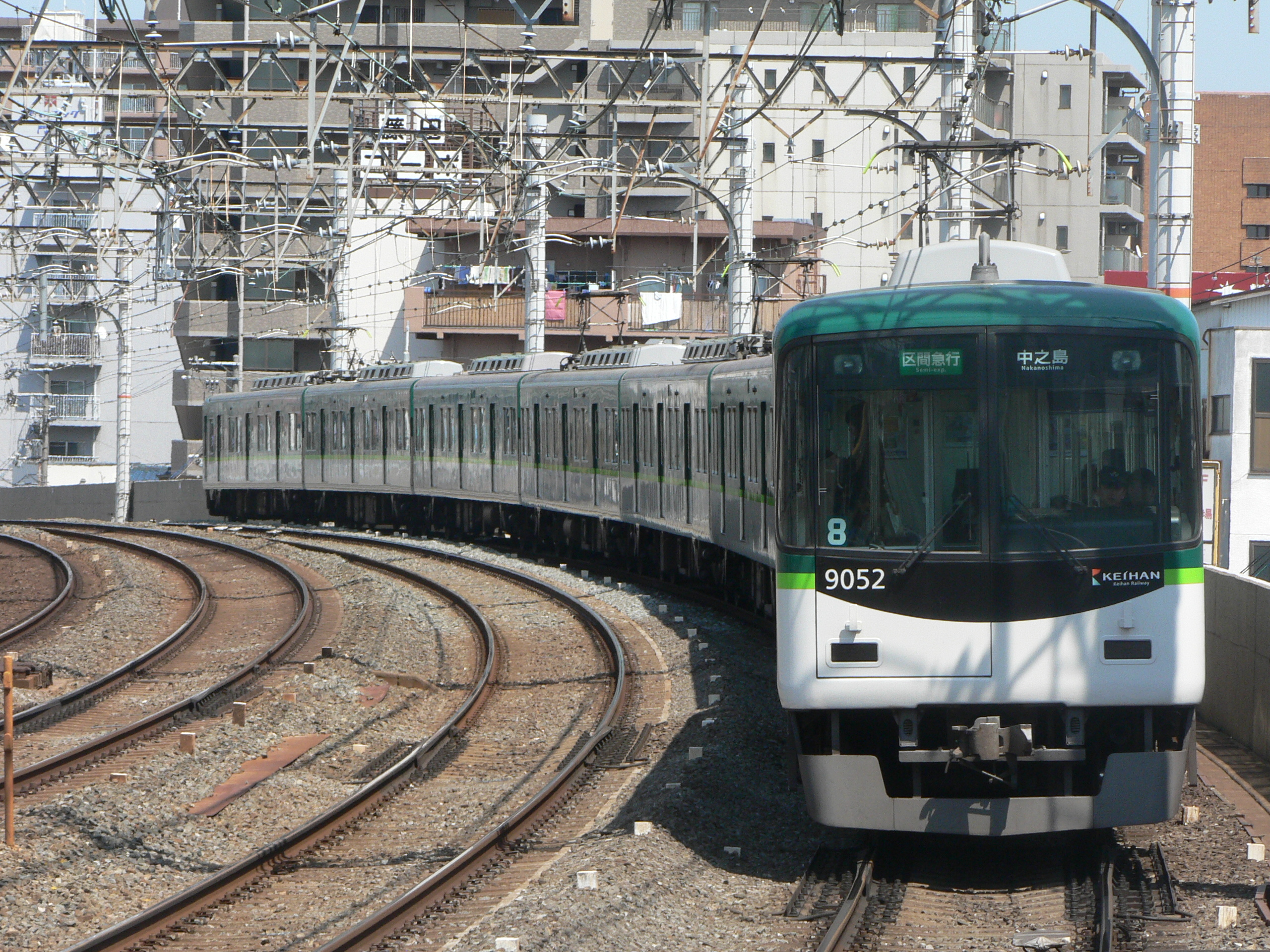 Keihan 9000 series EMU eight-car set 9002